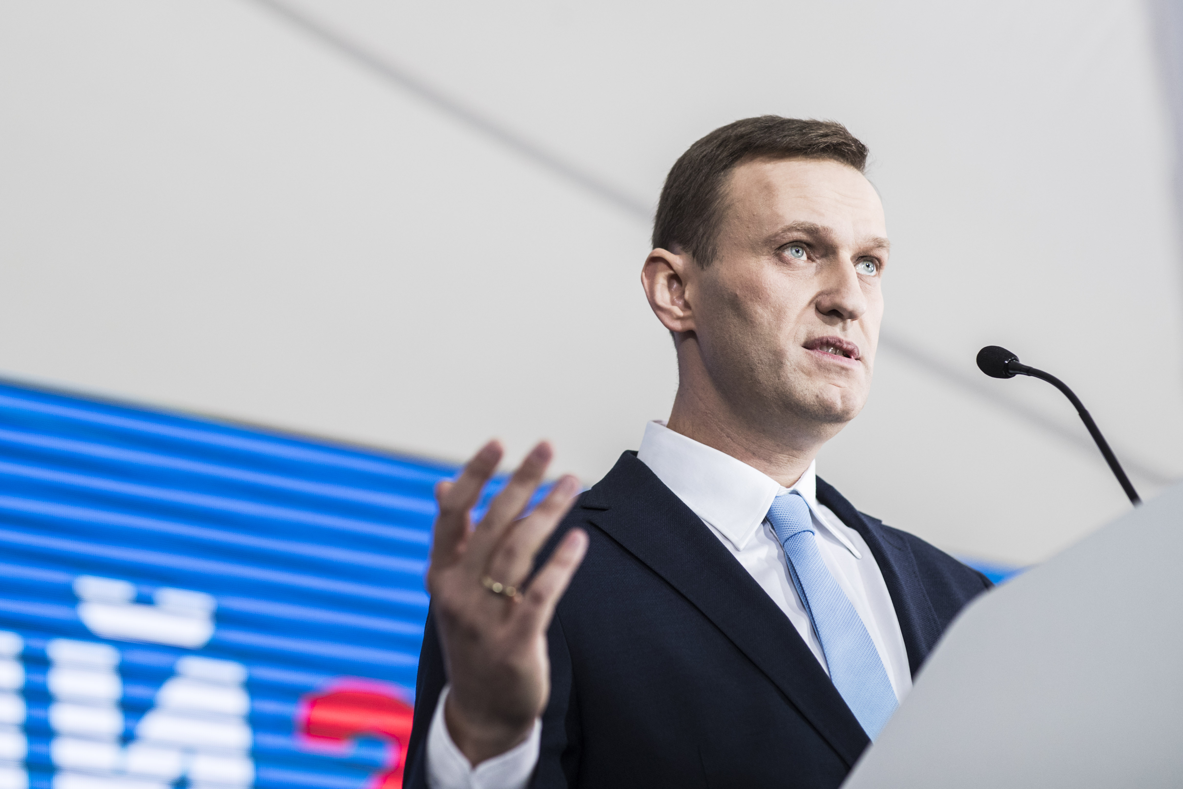 Alexei Navalny speaks to his supporters in Moscow after they initiated his longshot attempt to be in the ballot on the upcoming presidential elections